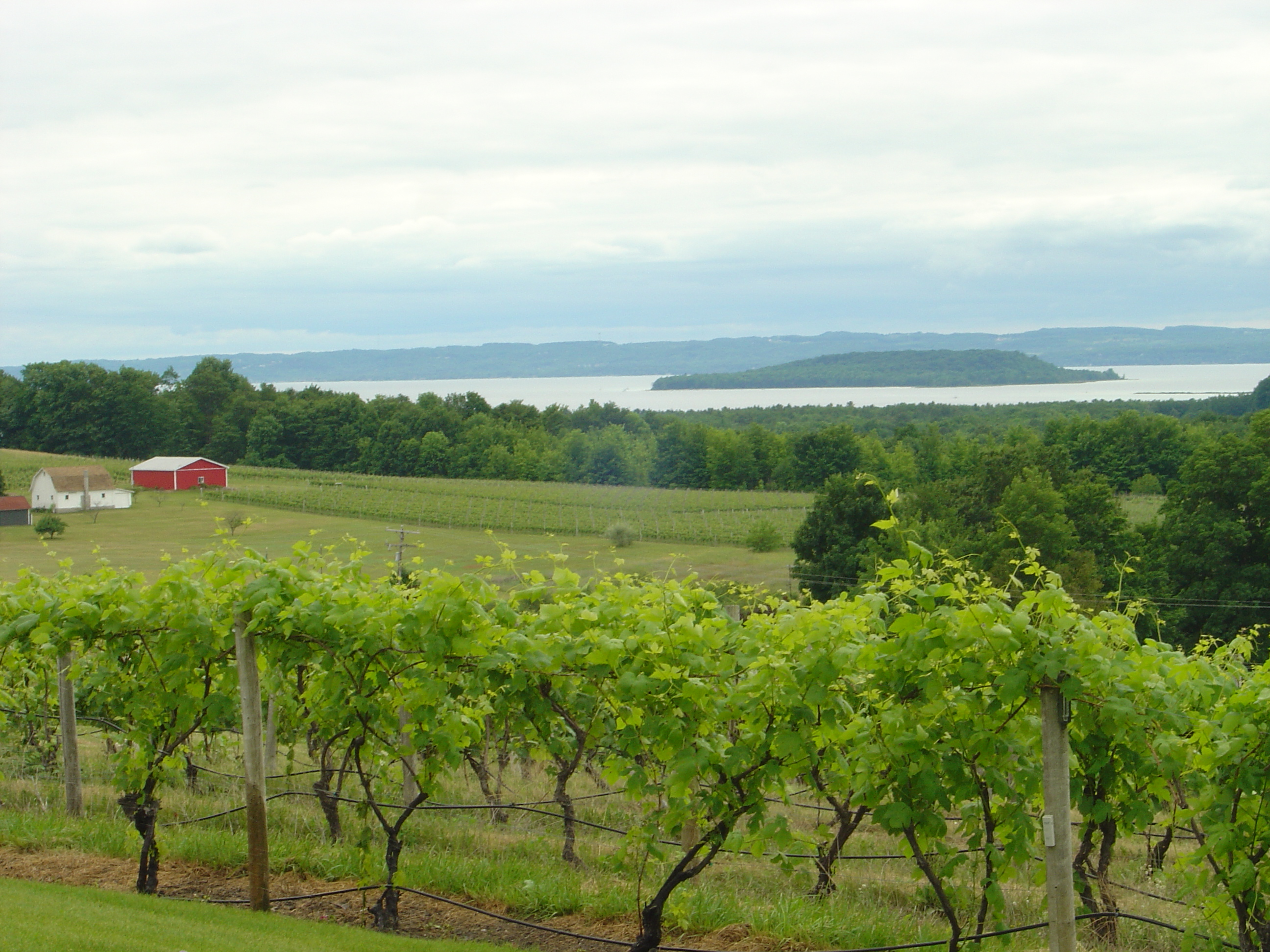 View of Grand Traverse Bay from Old Mission Peninsula, Traverse City, MI Originally uploaded to English Wikipedia: 10:57, September 18, 2006 2,592×1,944 (2.06 MB) User:Stanthejeep